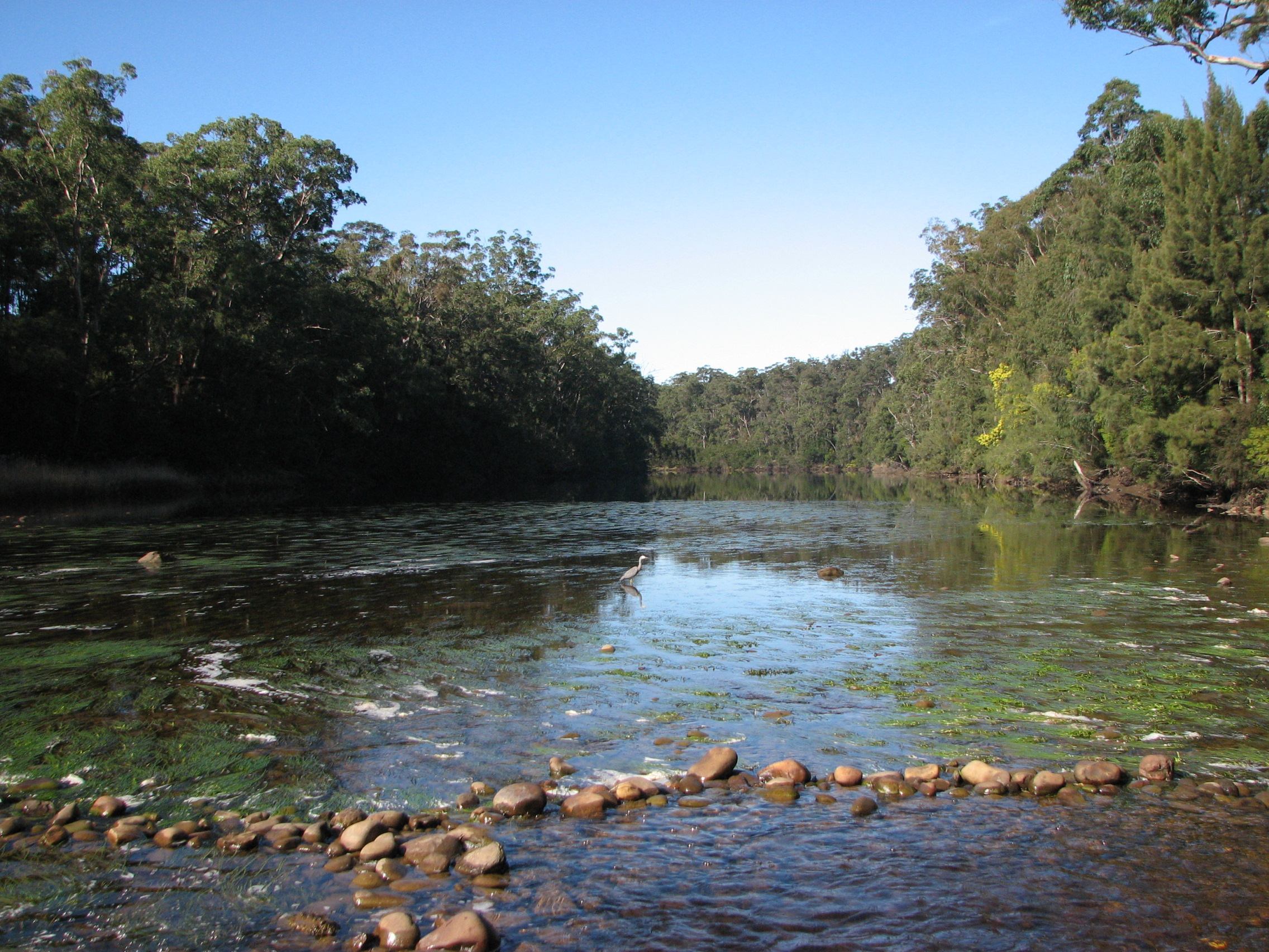 View of the Clyde River at Shallow Crossing